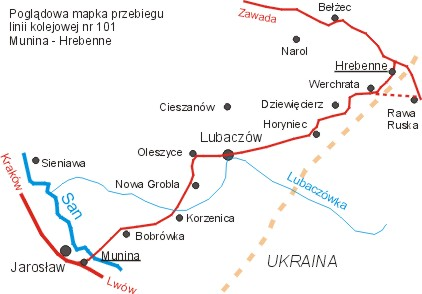 Railway Munina - Hrebenne (Poland)